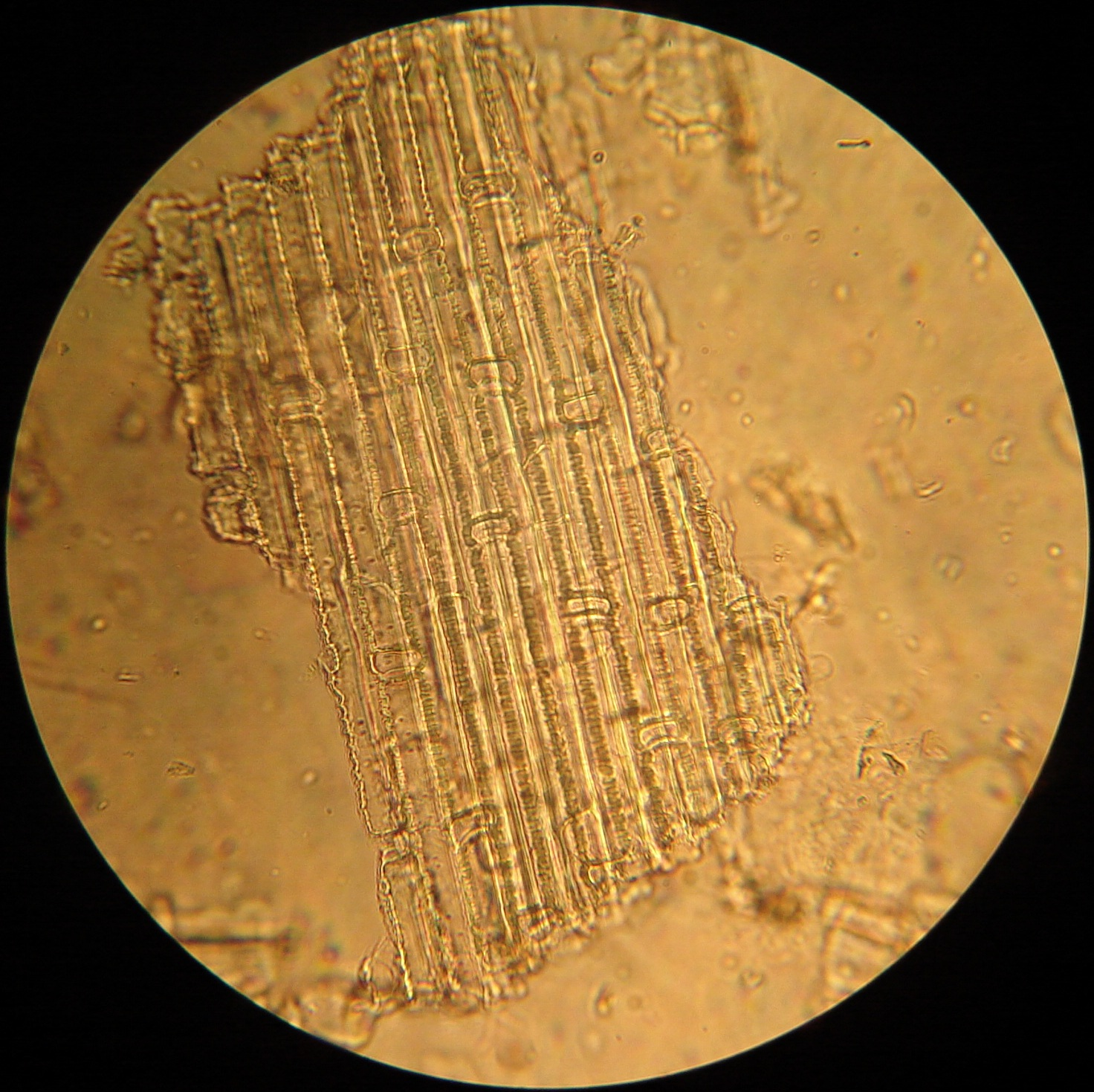 Agropyron repens epidermis viewed under a microscope at 40x magnification.